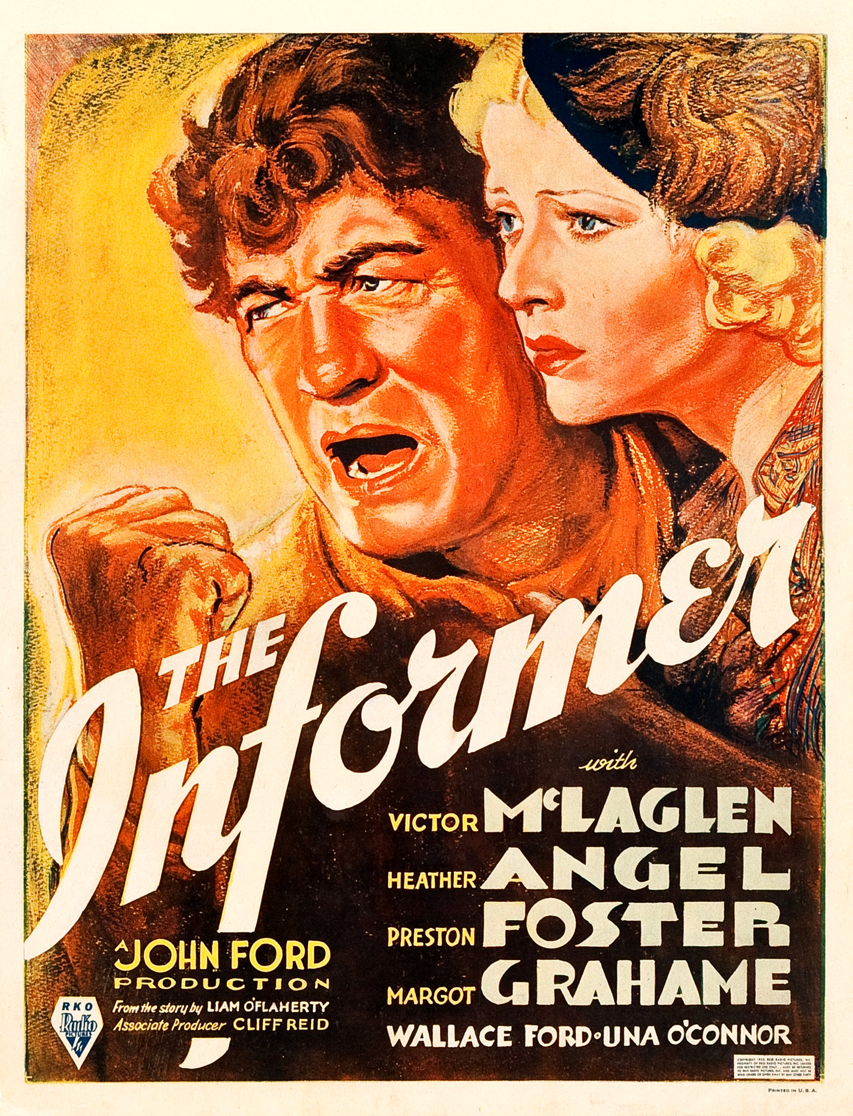 Theatrical window card for the 1935 film The Informer.